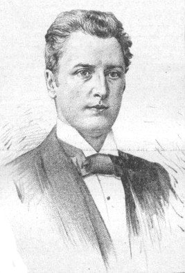 Portrait of Otto Rippert (1869-1940), German actor. Cropped from a gallery of artists connected with Deutsches Theater in München.